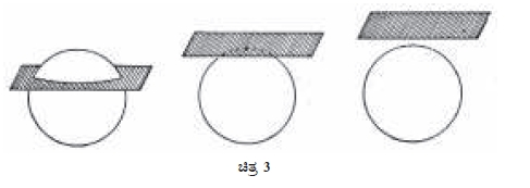 diagram